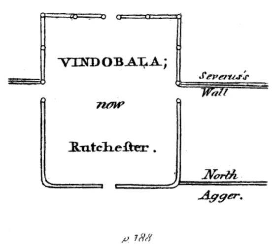 "VINDOBALA; now Rutchester". Engraving from page 188 of The History of the Roman Wall by William Hutton. Printed by John Nichols and Son, London, 1802.